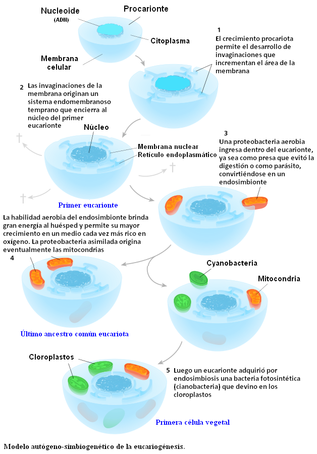 An autogenous and symbiogenetic model for the origin of eukaryotes